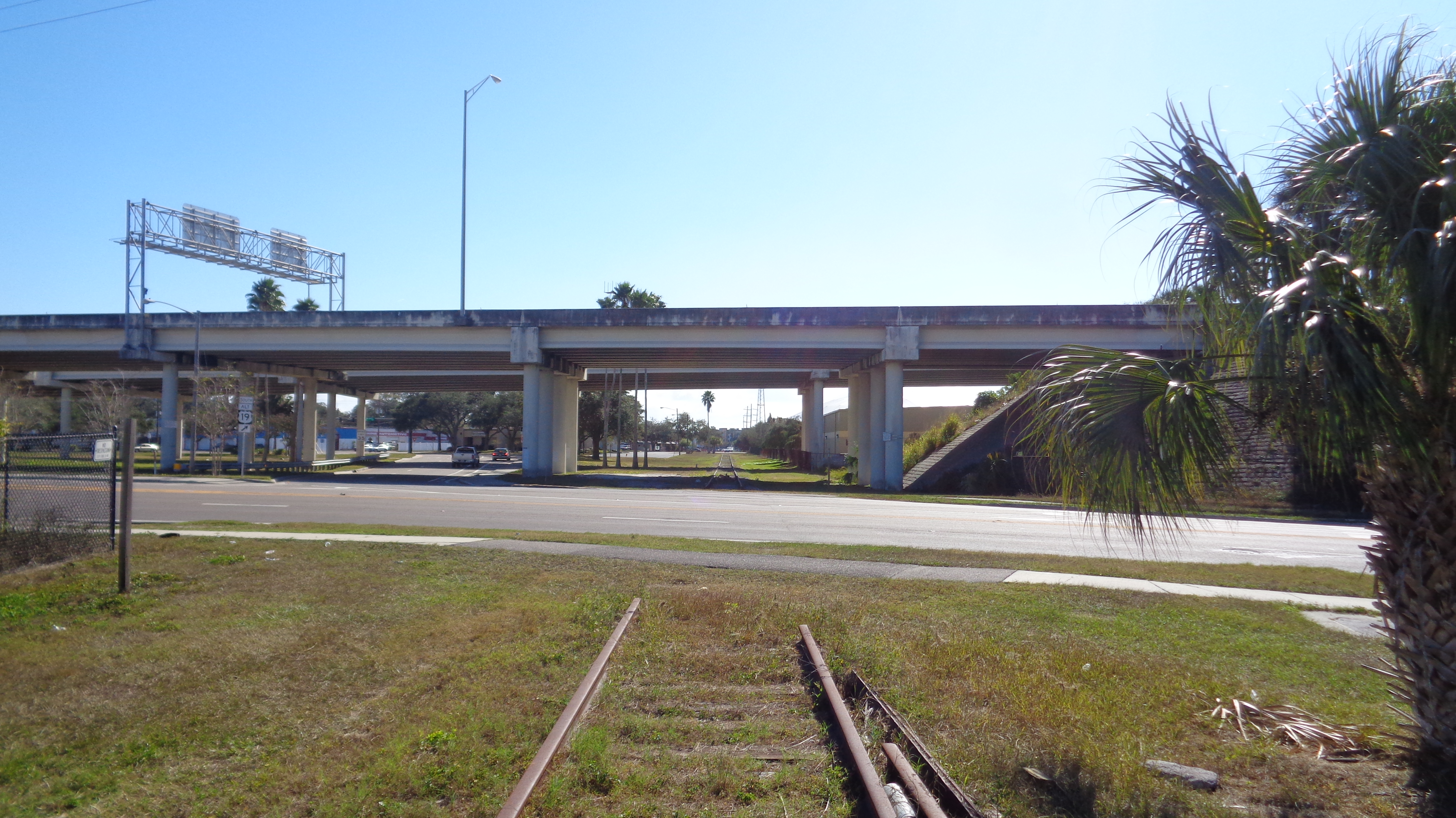 Abandoned remnant of the CSX Clearwater Subdivision looking south towards 5th Avenue North and an I-375 overpass in St. Petersburg, Florida. As of 2016, 5th Avenue North marks the end of the tracks still physically connected to the active tracks used by CSX.